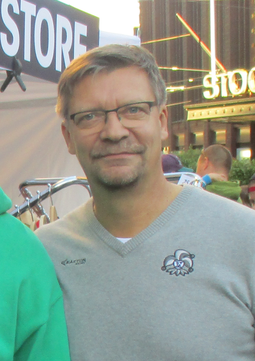 Ice hockey team Jokerit’s head coach Jukka Jalonen at the Three Smiths Statue in Helsinki, Finland on 30th of August 2016.